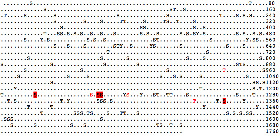 Phosphorylation sites on serines (S), threonines (T), and tyrosines (Y) for QSER1 protein. Note red text is experimentally confirmed phosphorylation residues found on NCBI. Red boxes are experimentally confirmed phosphorylation sites not predicted by ExPASy NetPhos program.